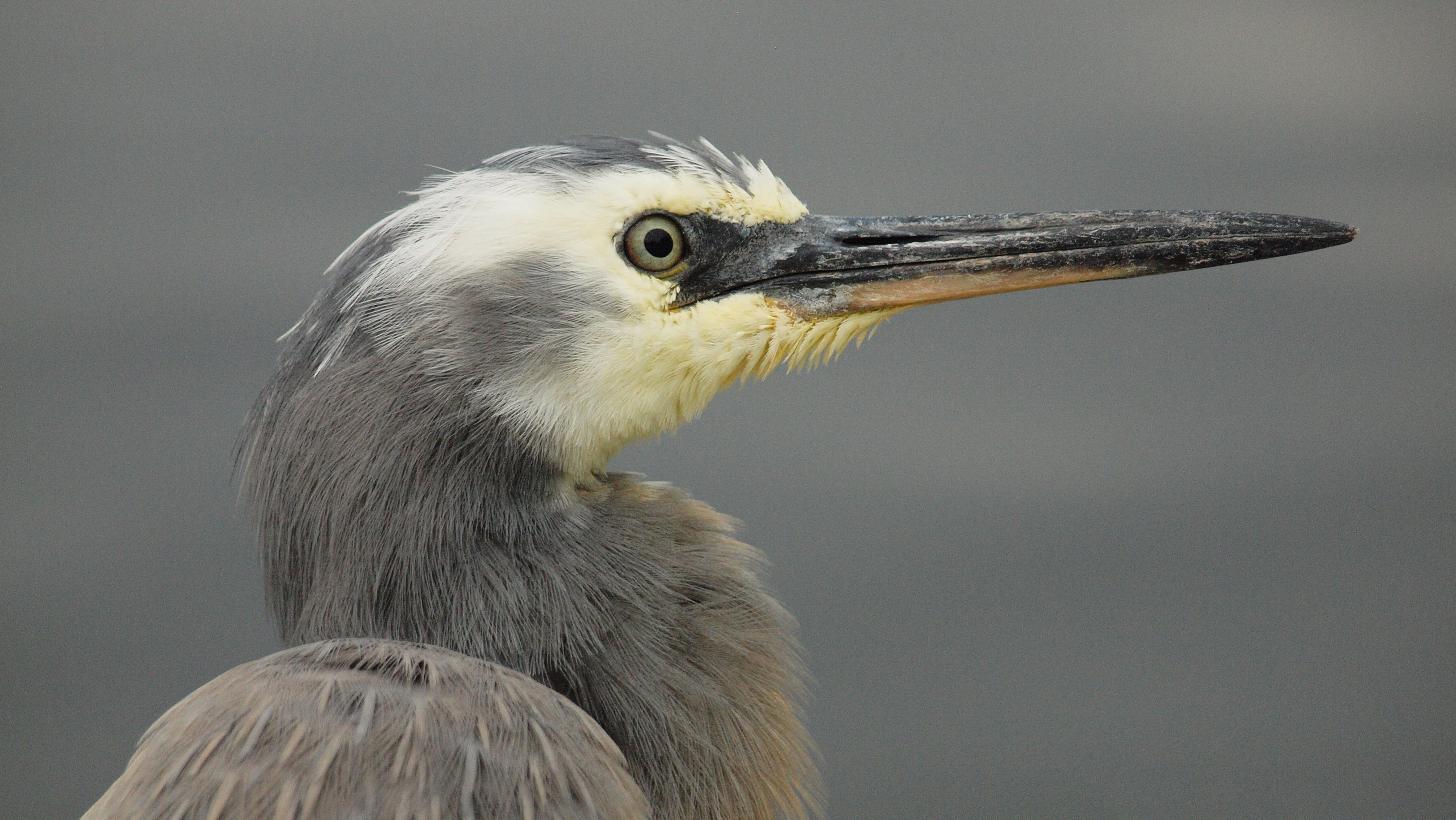 A White-faced Heron at Royal Botanic Gardens, Sydney, Australia.